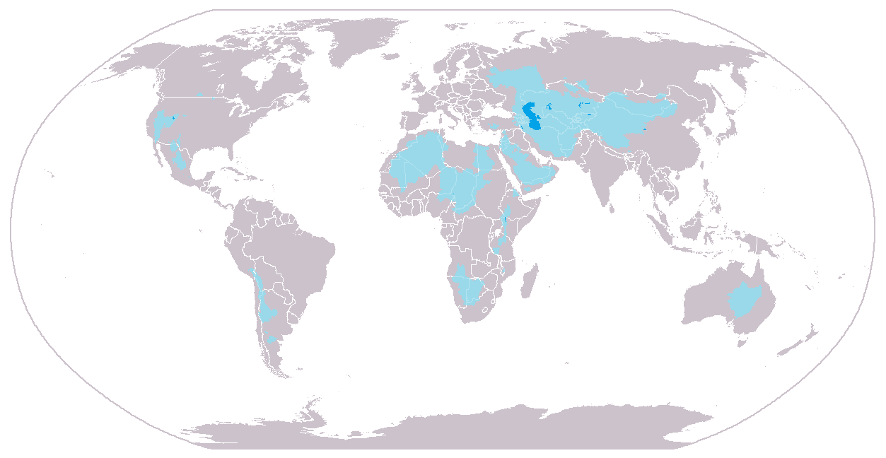 Major endorheic basins shown in blue, with major endoheric lakes in dark blue.